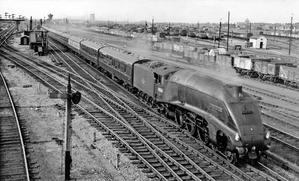 Up 'Flying Scotsman' approaching Peterborough North. View NW, towards Grantham, Doncaster and the North; ex-Great Northern ECML. The express,headed by A4 Pacific No. 60034 'Lord Faringdon', is passing Westwood Junction Box, beyond which is Wisbech Junction (LMS) Box controlling the ex-Midland lines to Manton, Leicester etc. seen on the far left. Over on the right are the great New England Yards (West and East) and beyond in the distance can be seen the large water-tower and coaling plant of New England Locomotive Depot.